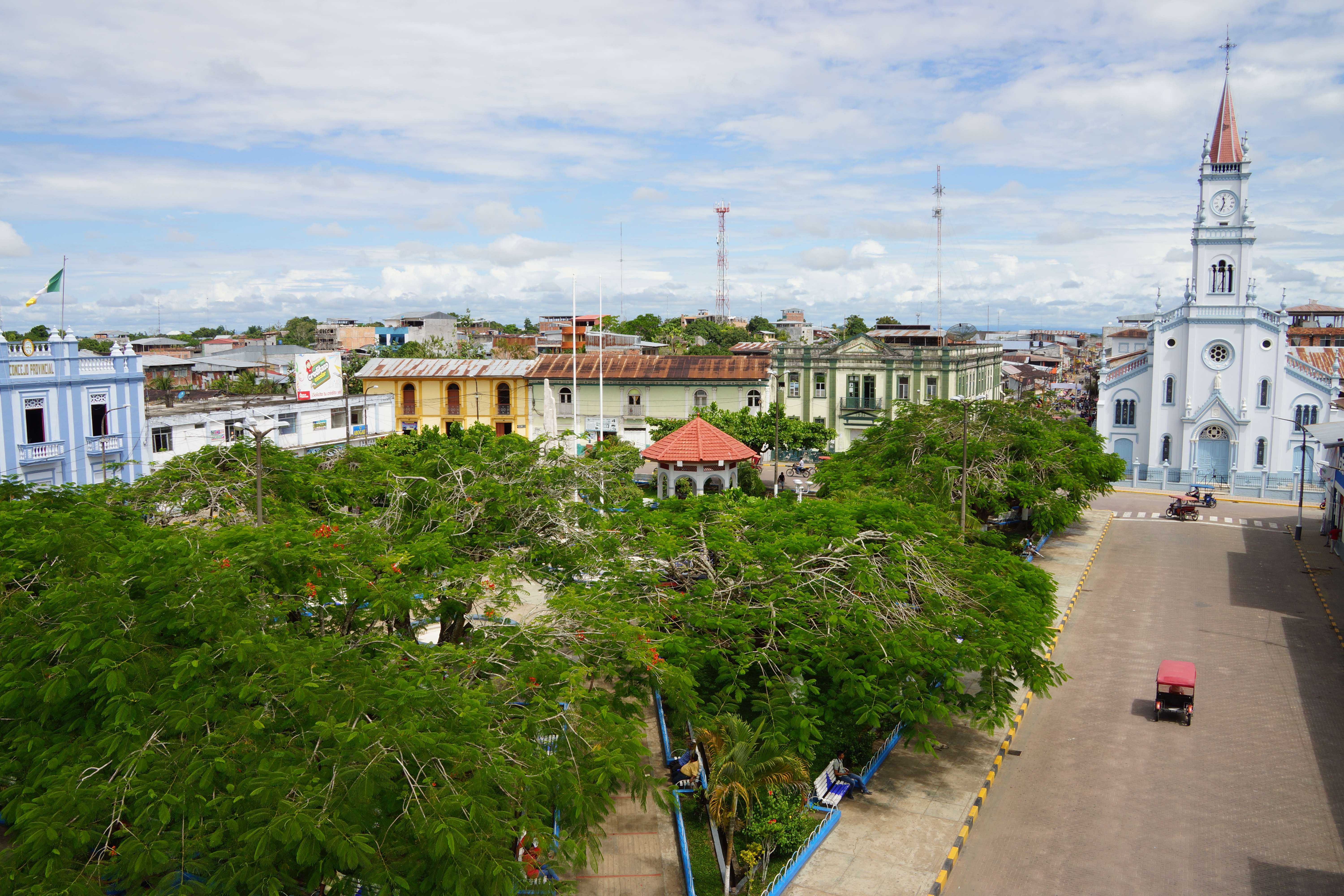 Yurimaguas, Loreto, Peru: The main square with the City Hall and the main church.